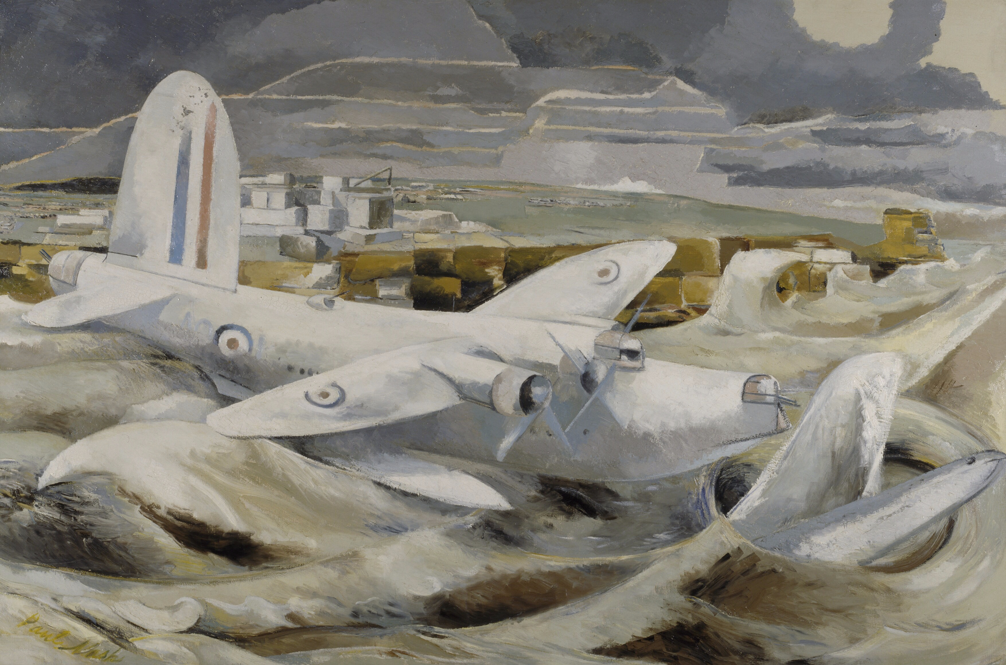 A Sunderland flying boat on a stormy sea off the coast of Portland. Part of a U-Boat is visable in front of the plane. Large quarried stones are stacked on the shore.